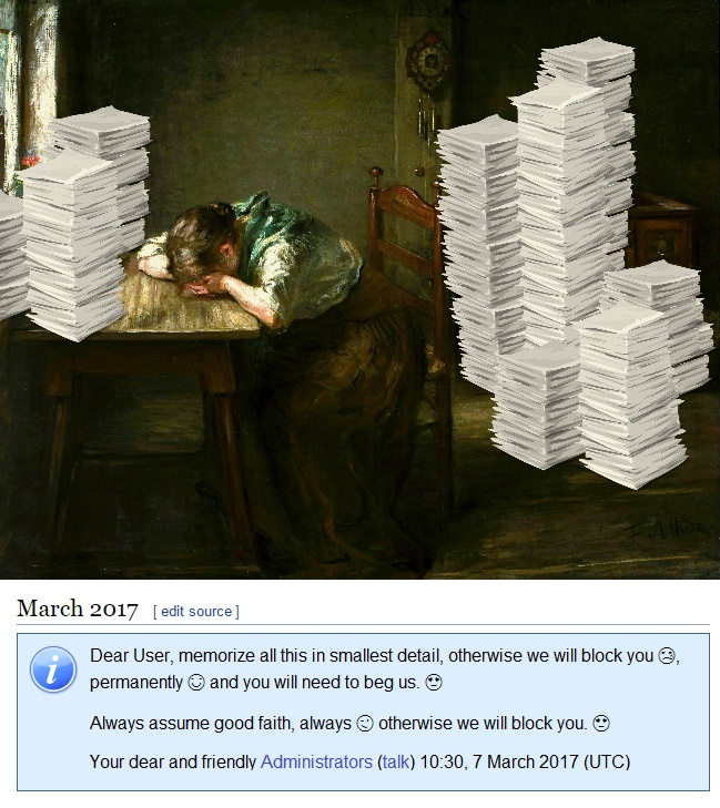 Wikipedia guidelines, well, not funny for majority, because only administrators left here (joke :)).label QS:Len,"Wikipedia guidelines, well, not funny for majority, because only administrators left here (joke :))."